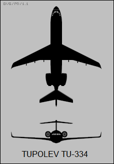 2-view silhouettes of the Tupolev Tu-334